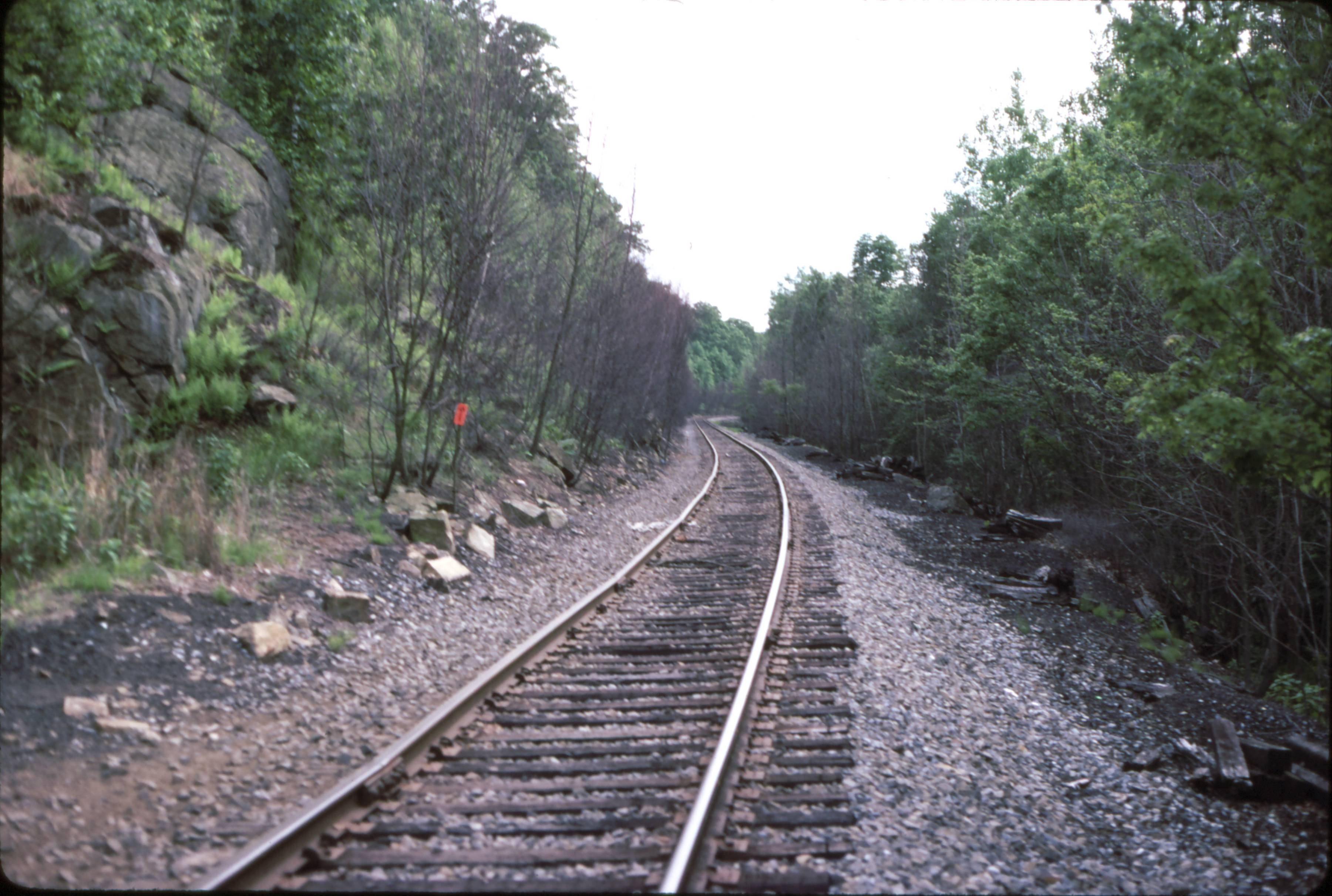 Site of former Waterloo, New Jersey railroad station.